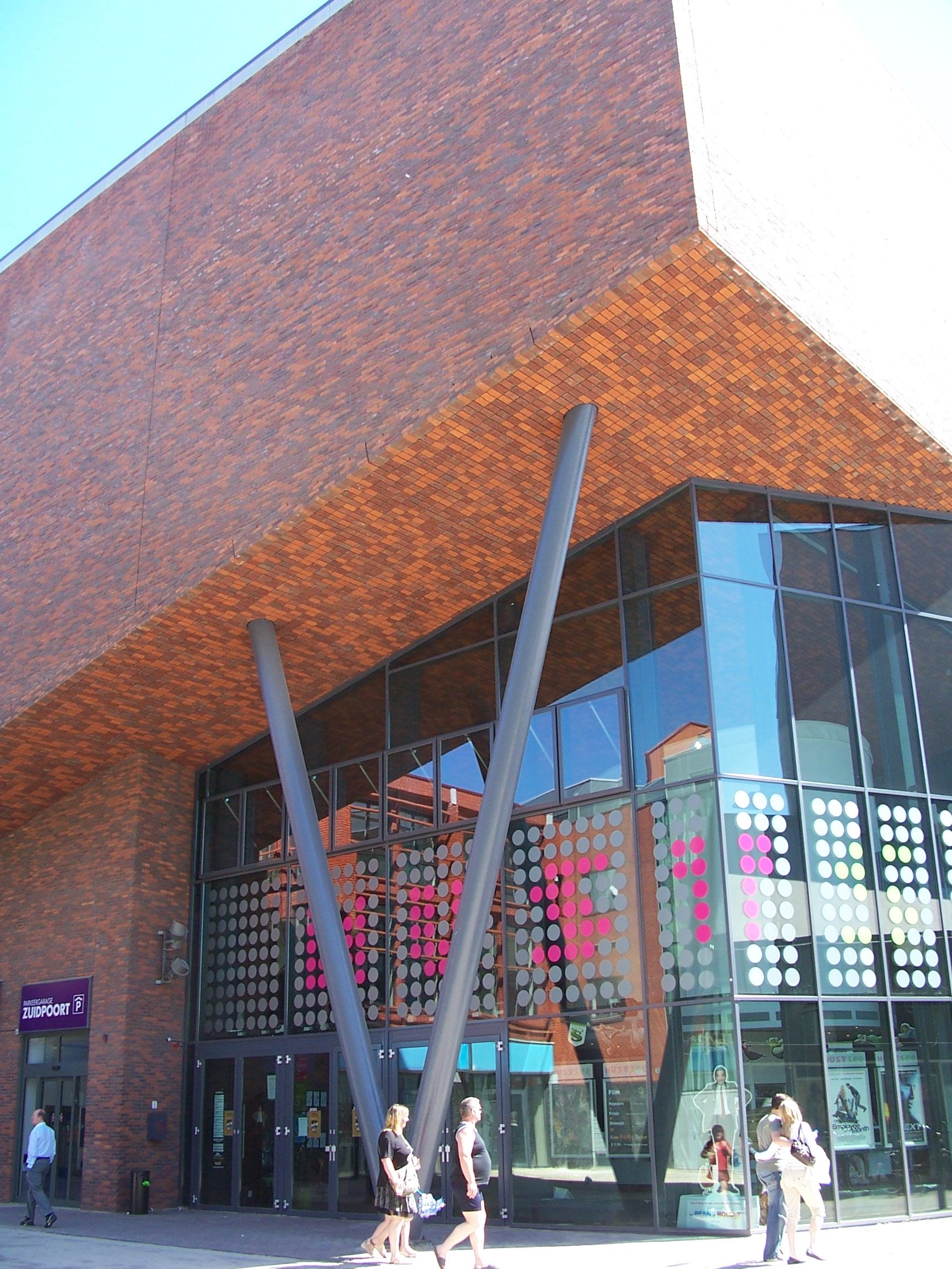 The largest cinema of Delft